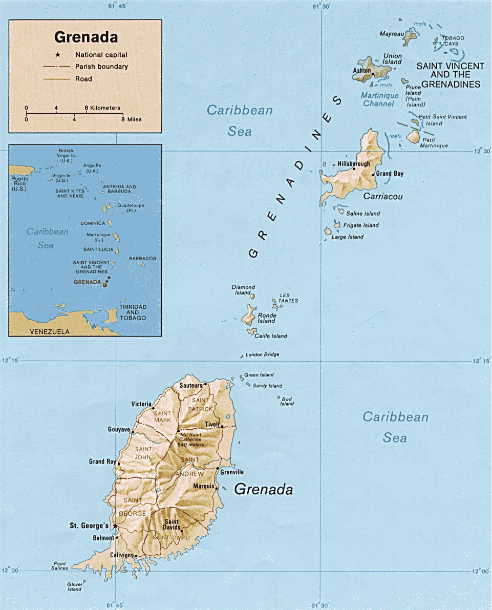 Map of Grenada